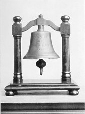 The Ship's bell of the first Steam Packet vessel, Mona's Isle (1830).